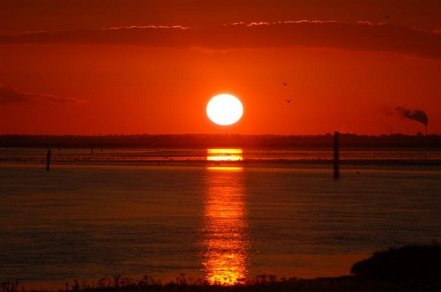 Breydon Water Autumn Sunset. The chimneys on the horizon belong to the British Sugar factory at Cantley.